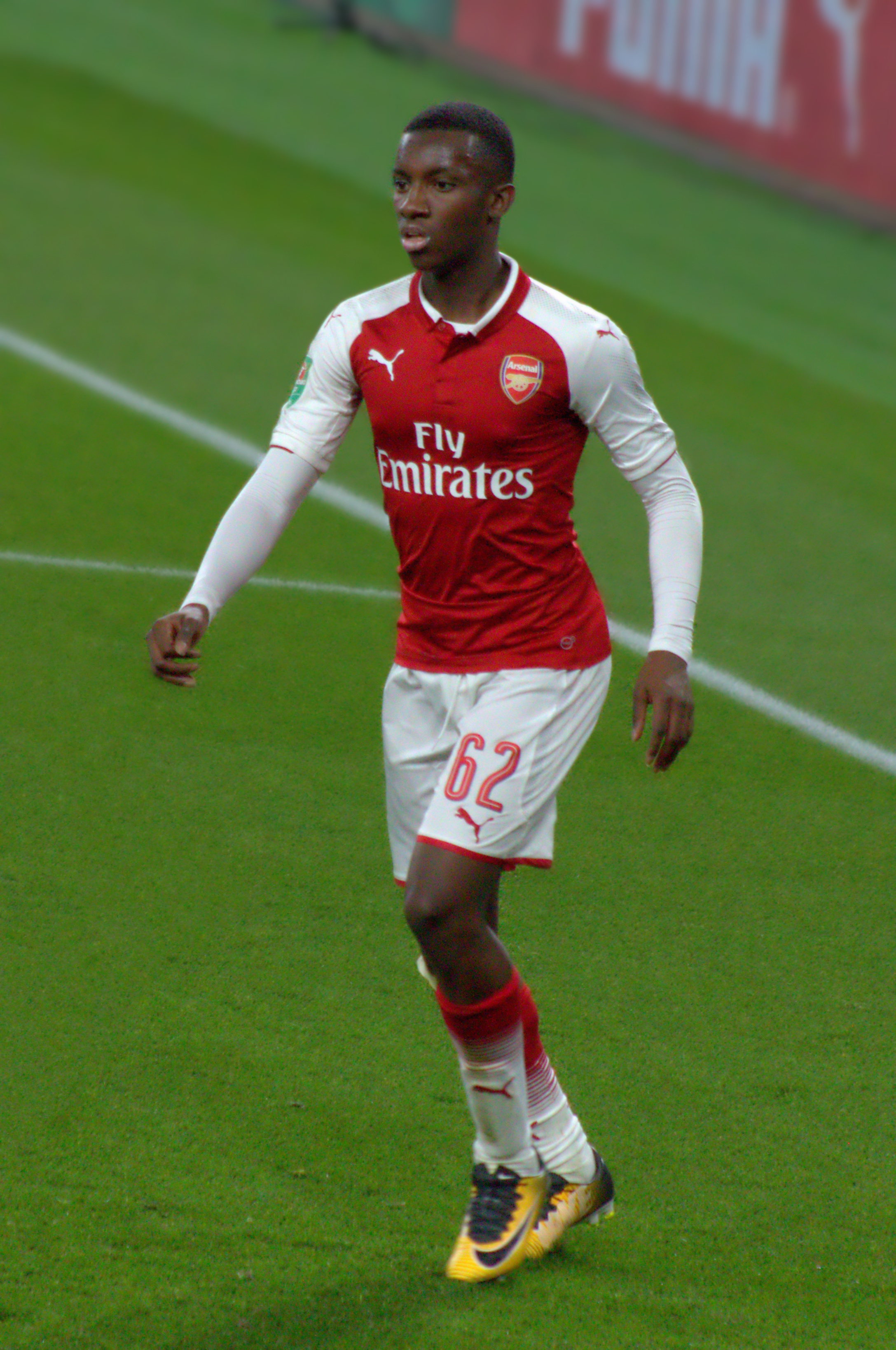 Eddie Nketiah playing for Arsenal against Norwich City at the Emirates Stadium, London.